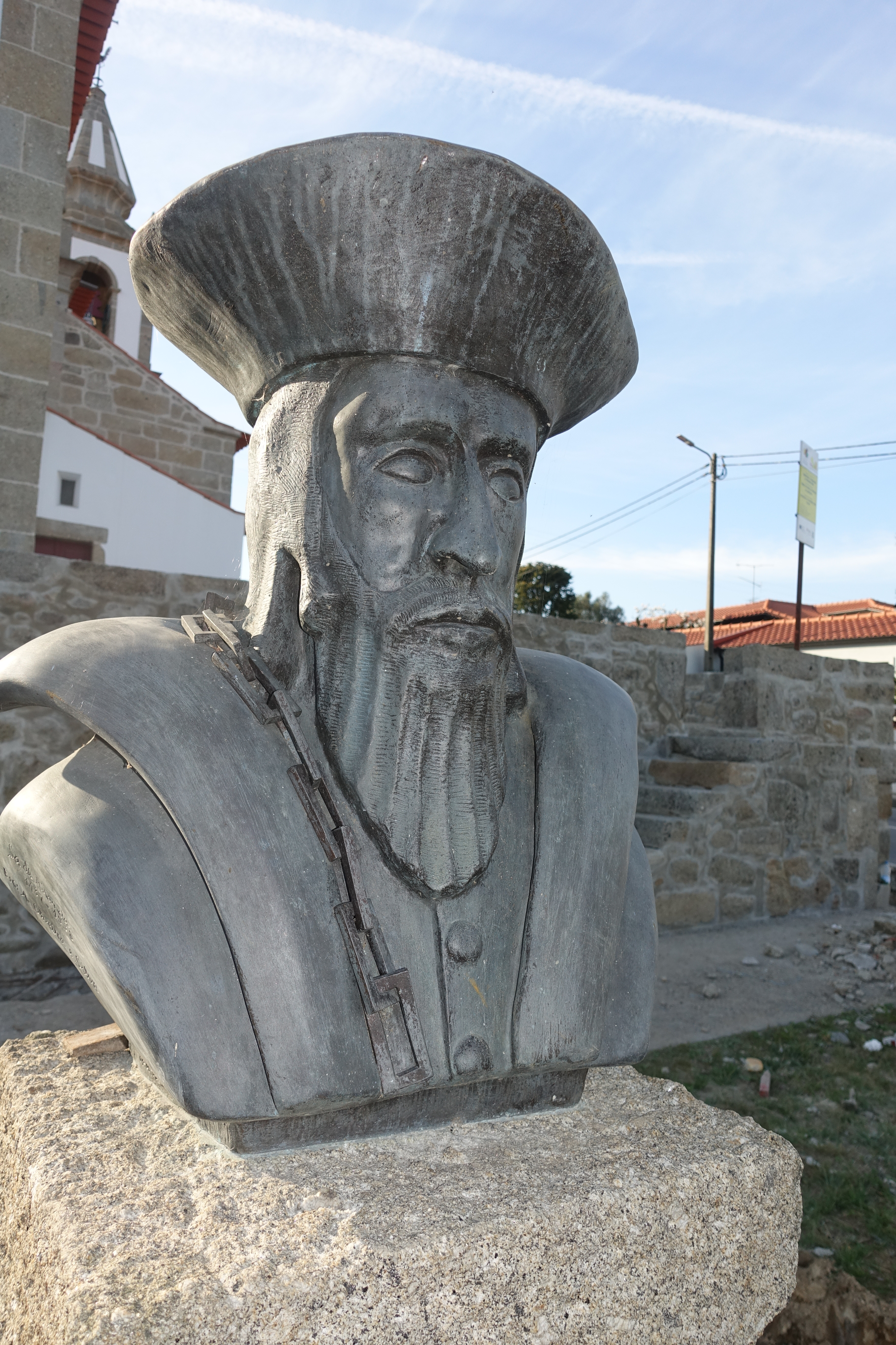 Bust of Sá de Miranda near Carrazedo Church, in Amares, Portugal.